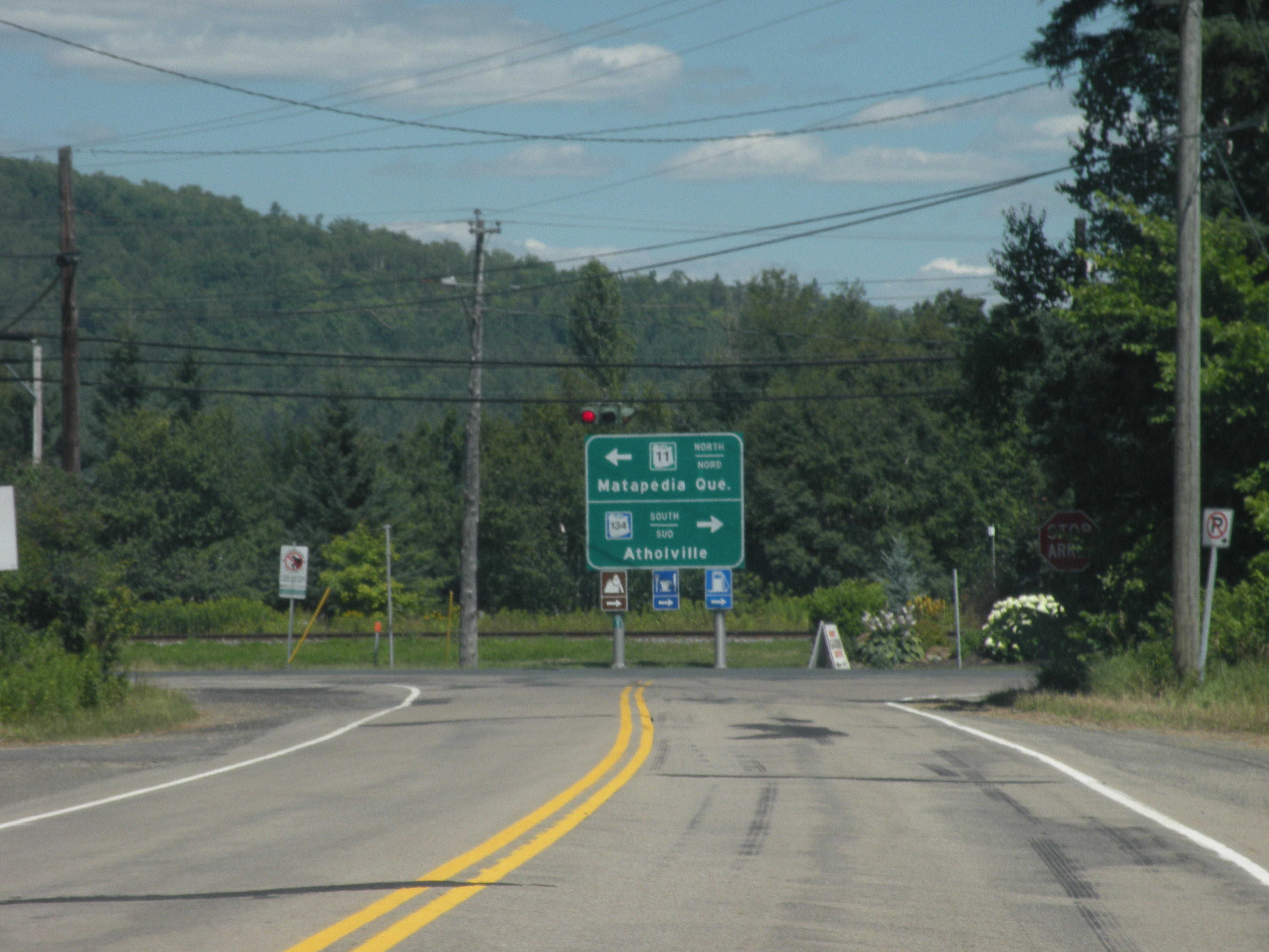 Junction of roads 11 and 134 in Tide Head, New Brunswick.